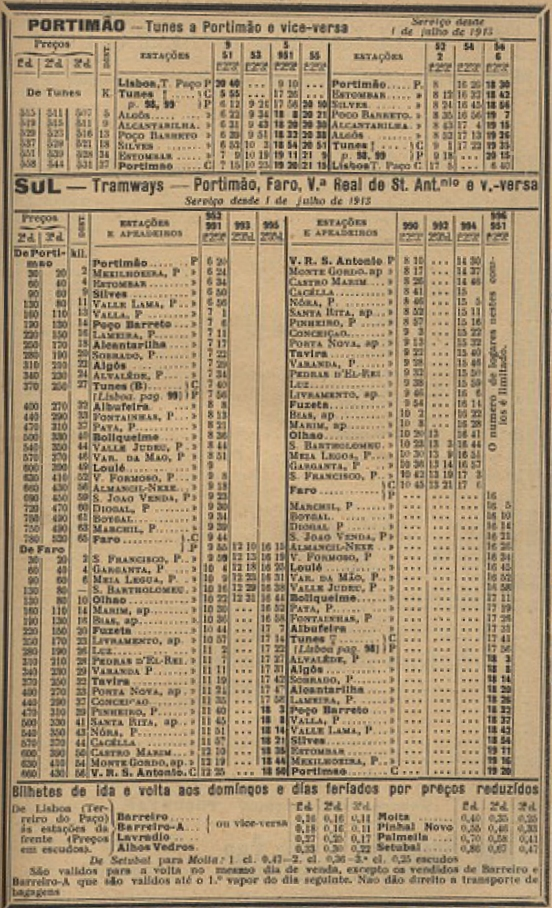 Timetable of 15th July 1913 for the Linha do Algarve (Algarve Railway), in southern Portugal. This image was published on the Guia Official dos Caminhos de Ferro de Portugal No. 168, of October 1913, and scanned by the Biblioteca Nacional de Portugal.